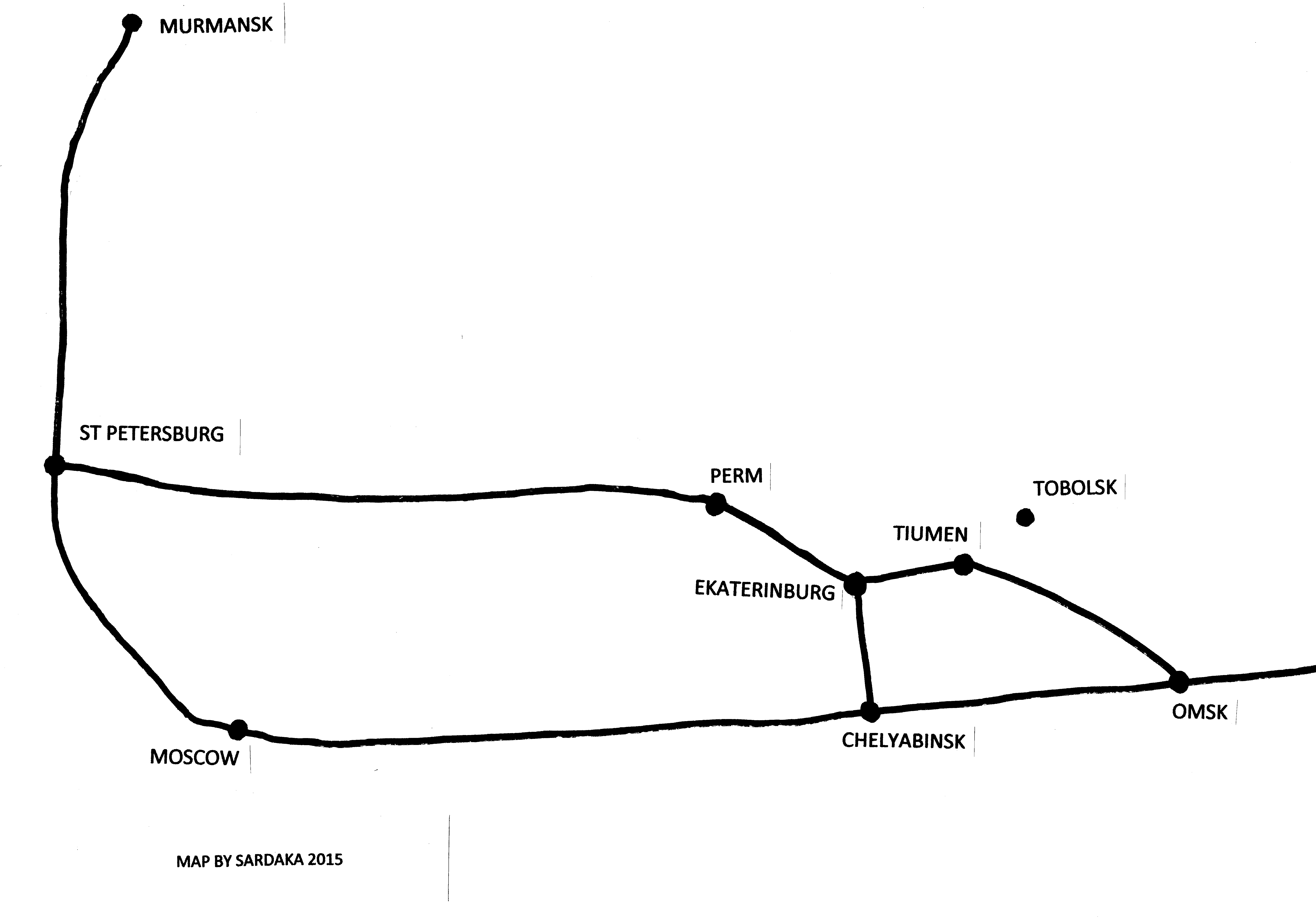 Locations where Tsar Nicholas II was held with his family before being murdered. The Imperial family was held for some time at Tobolsk, in Siberia, then transferred to Ekaterinburg, in the Ural Mountains, where they were murdered 1918-7-17 (apologies for the low-tech drawing, I'm a technophobe)